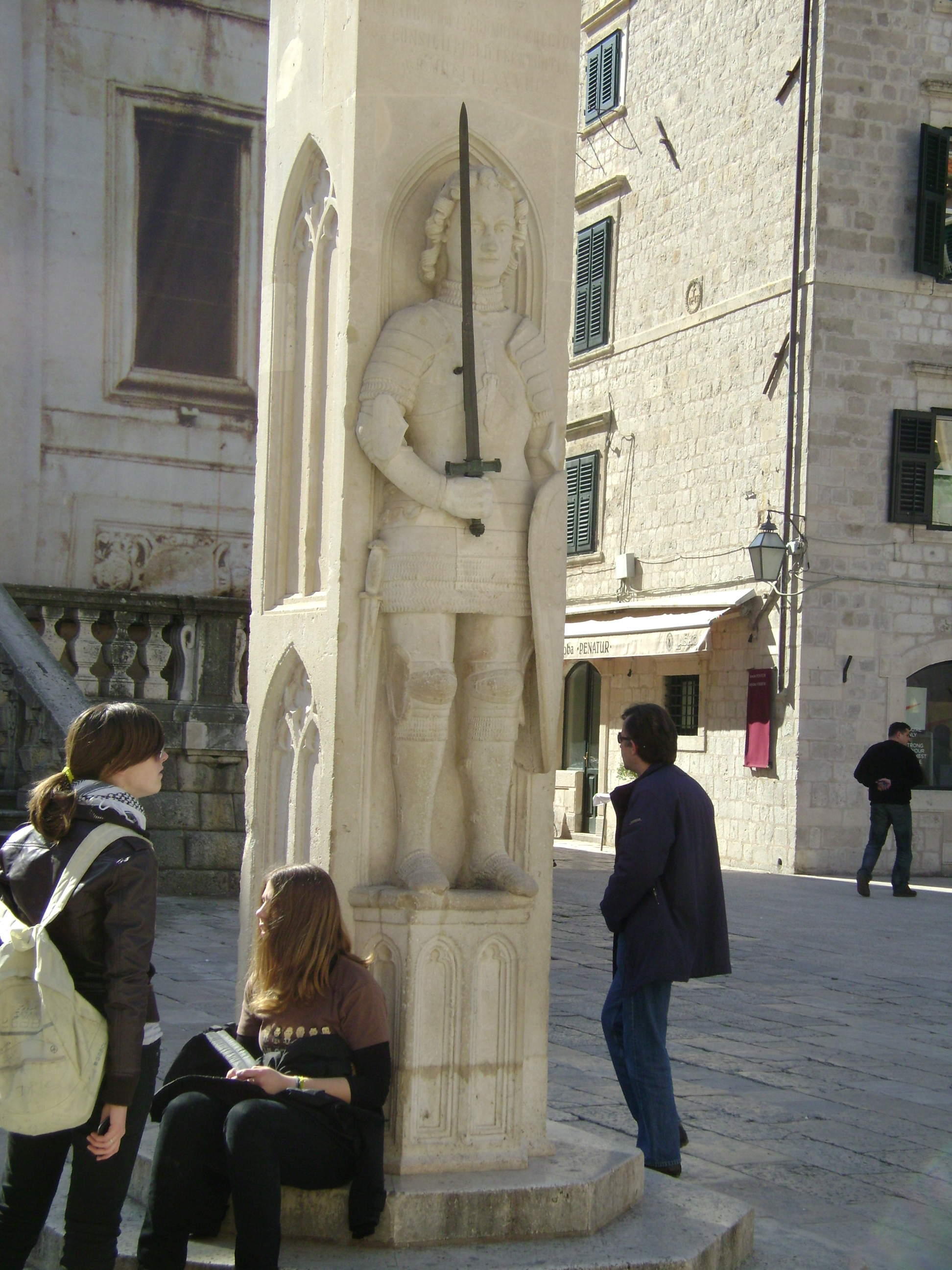 Dubrovnik, old town, monuments Orlando